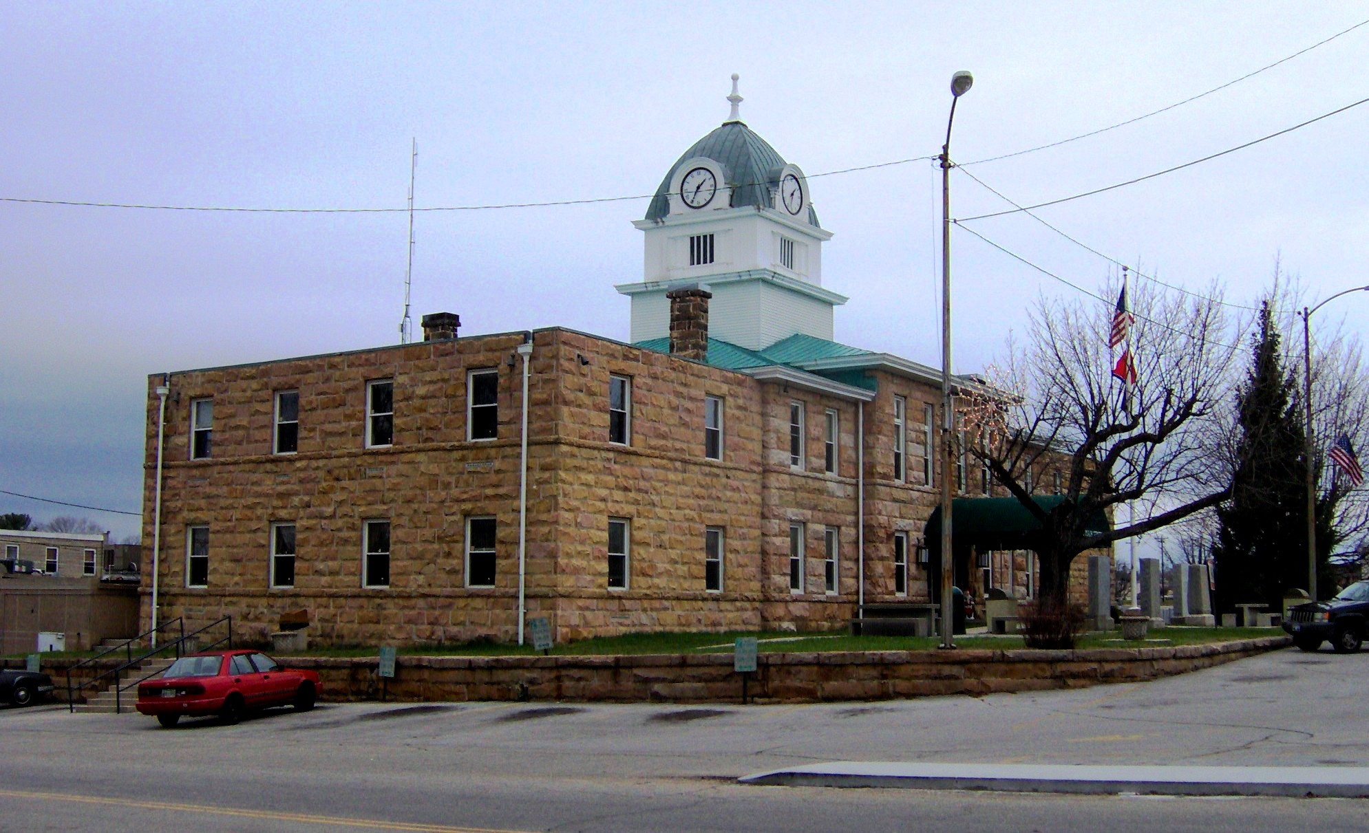 Fentress County Courthouse in Jamestown, Tennessee.